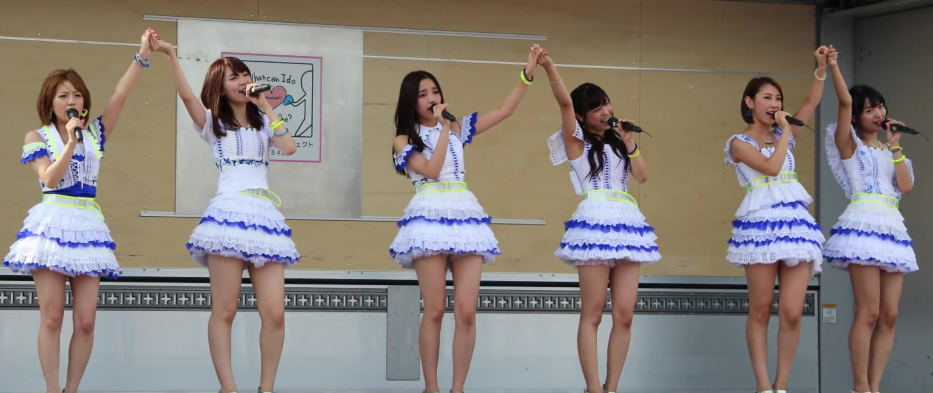 AKBが大熊の小学校に来た 恋するフォーチュンクッキー